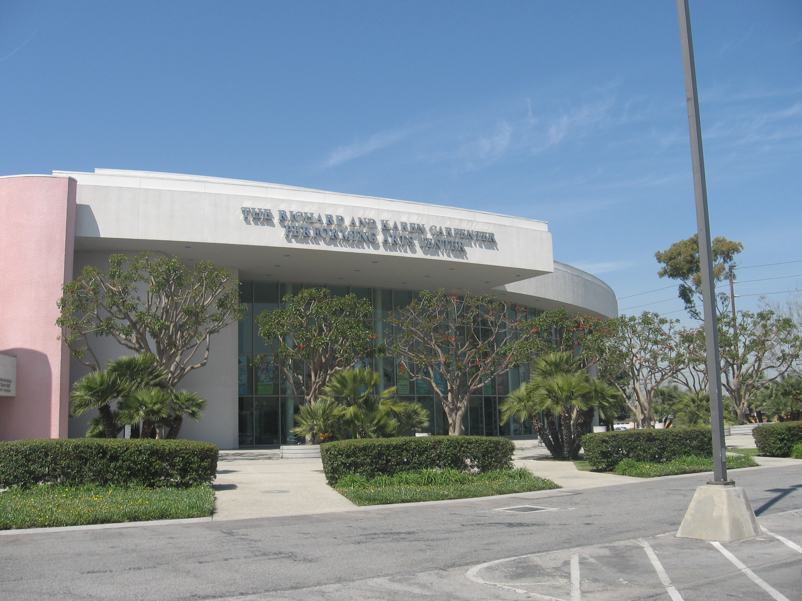 Carpenter Performing Arts Center